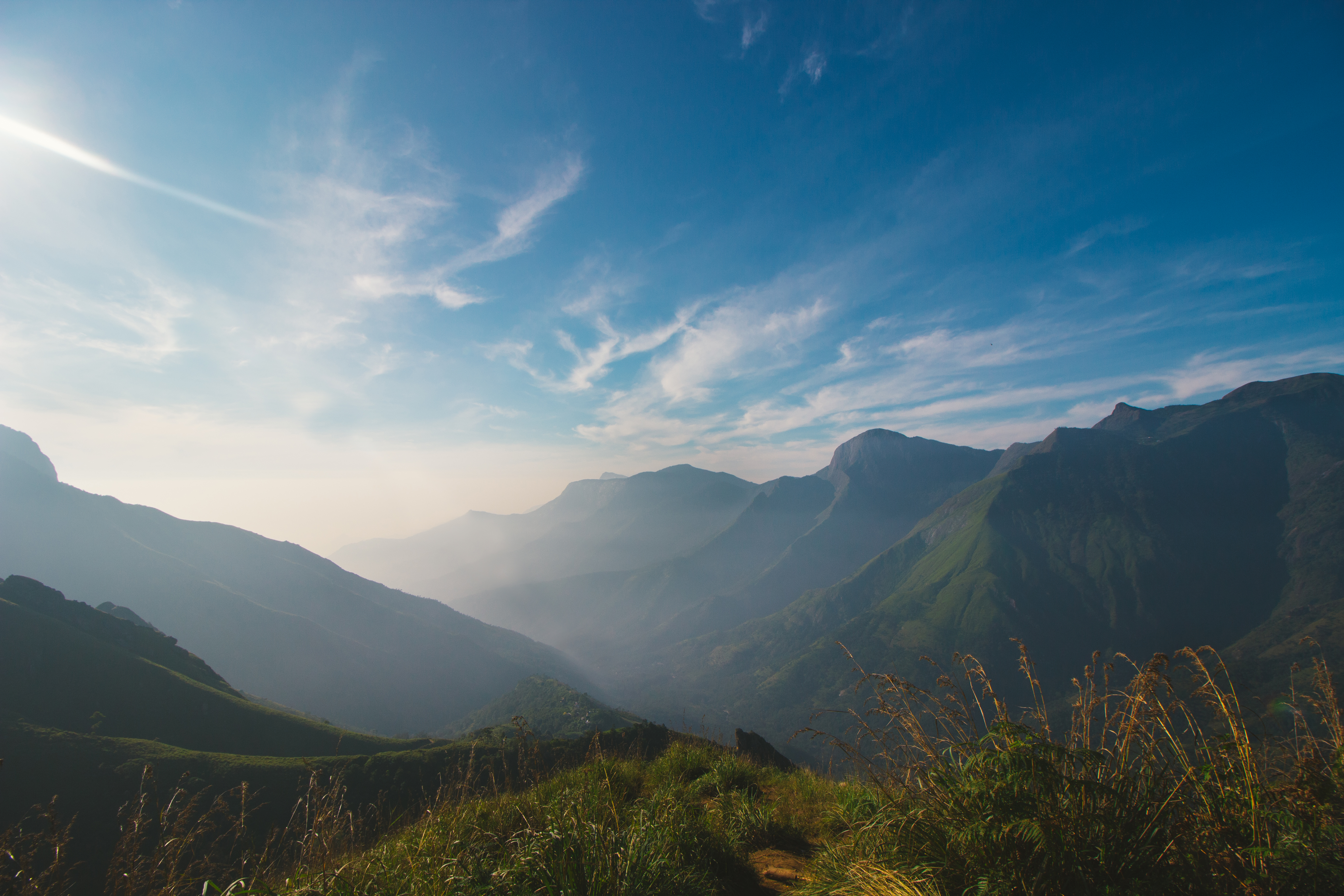 View from Topstation.